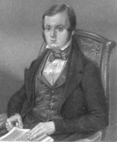 Henry Thomas Buckle